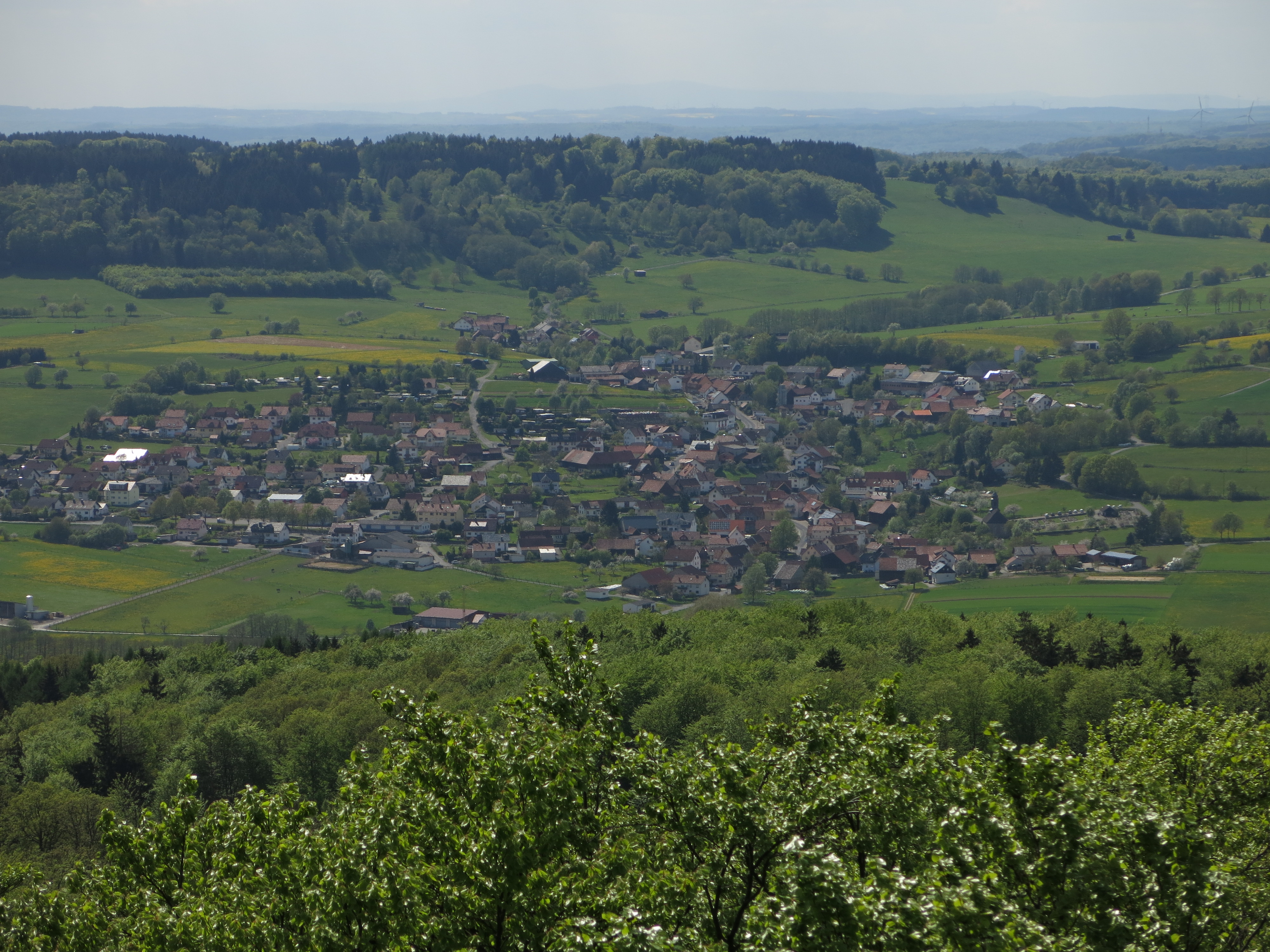 View westward from Große Haube auf Heubach, a district of Kalbach in Hesse.